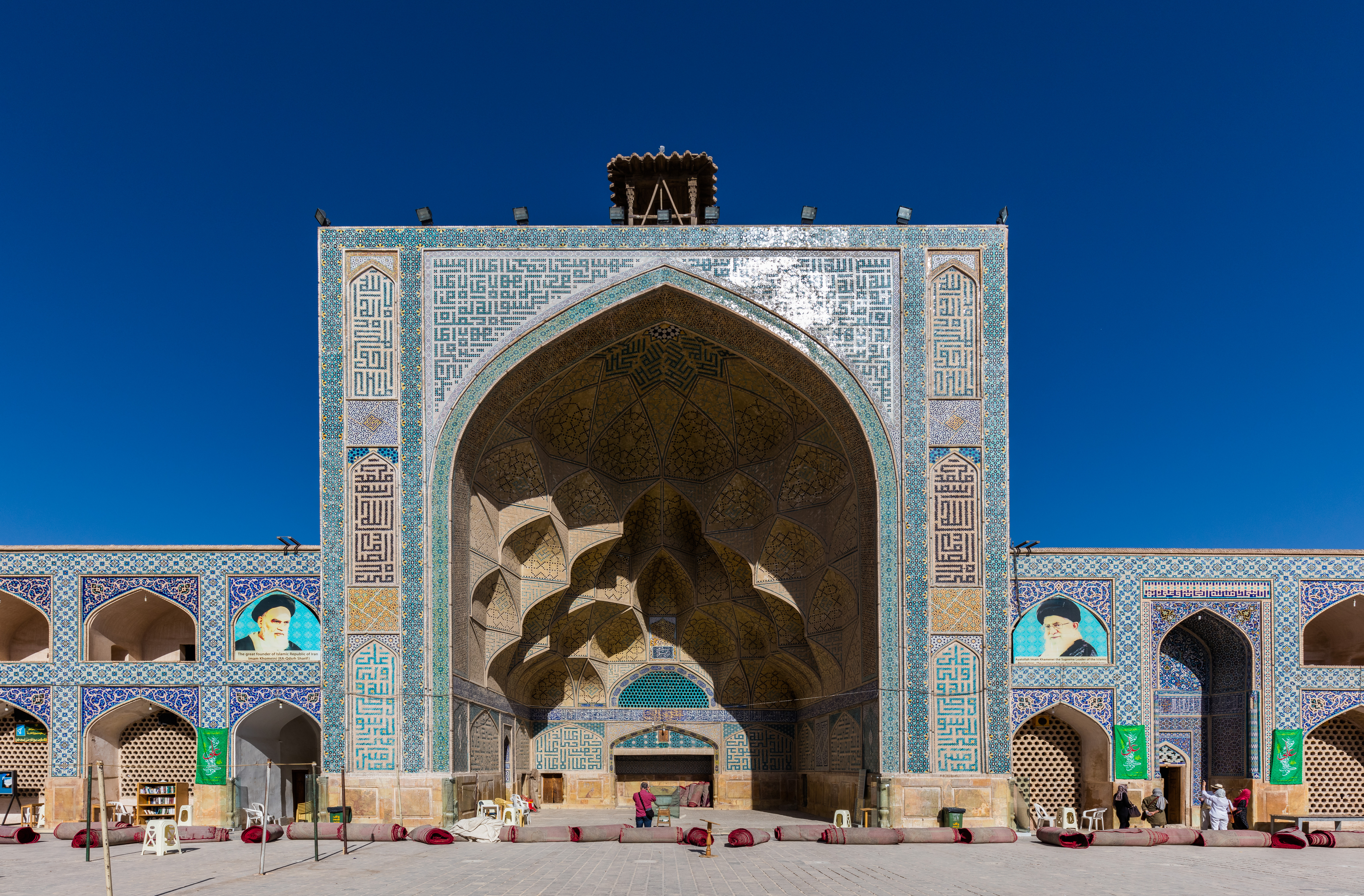 Jameh Mosque of Isfahan, Isfahan, Iran